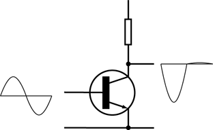 Diagram of Class B amplifier